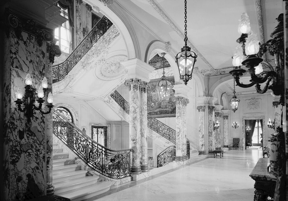 Staircase and Entrance Hall of "The Elms" — the Edward J. Berwind Mansion on Bellevue Avenue in Newport, Rhode Island. Built 1899-1901; designed by architect Horace Trumbauer. 1970 image: HABS—Historic American Buildings Survey of Rhode Island.